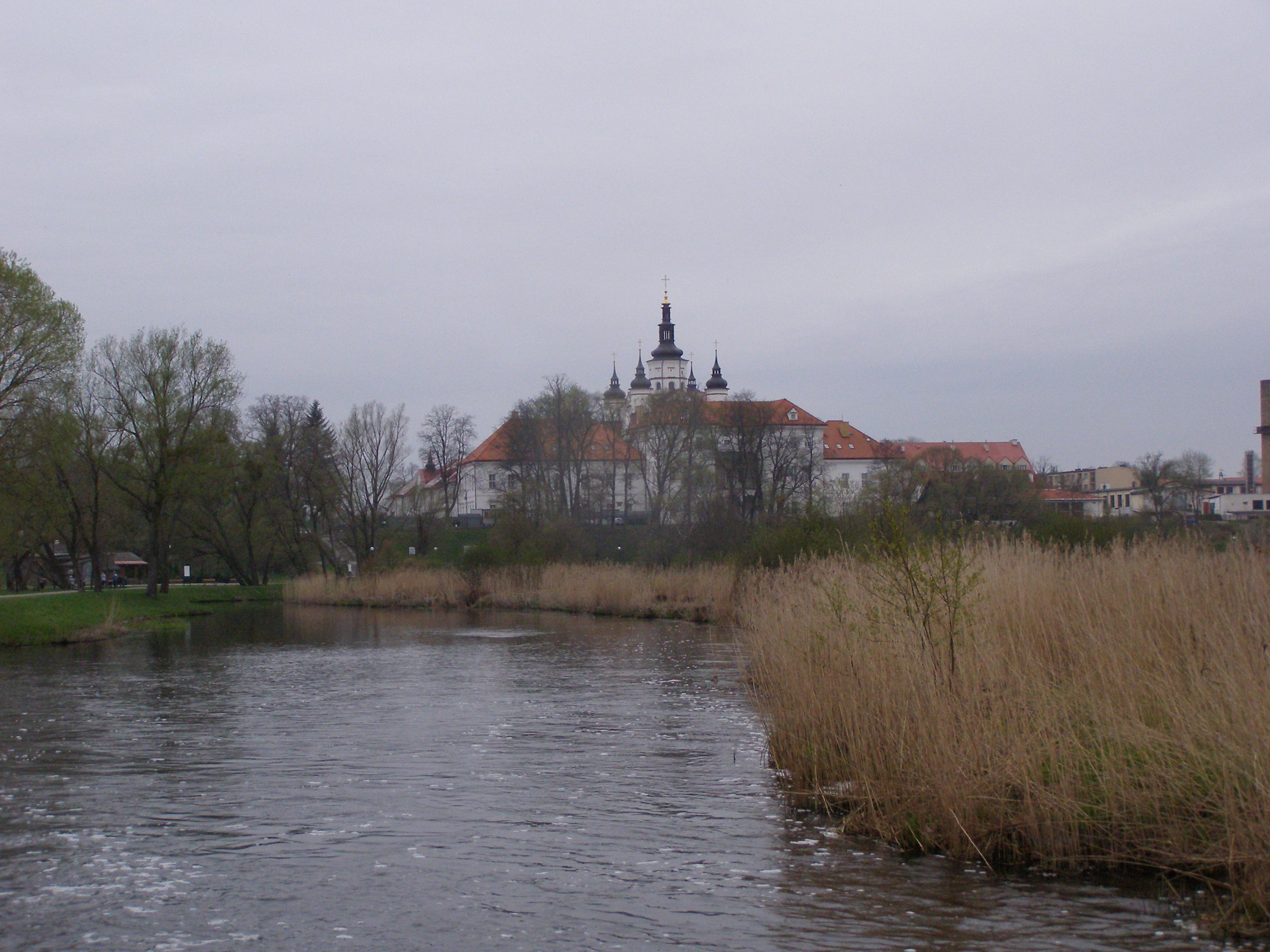 Supraśl - Orthodox monastery